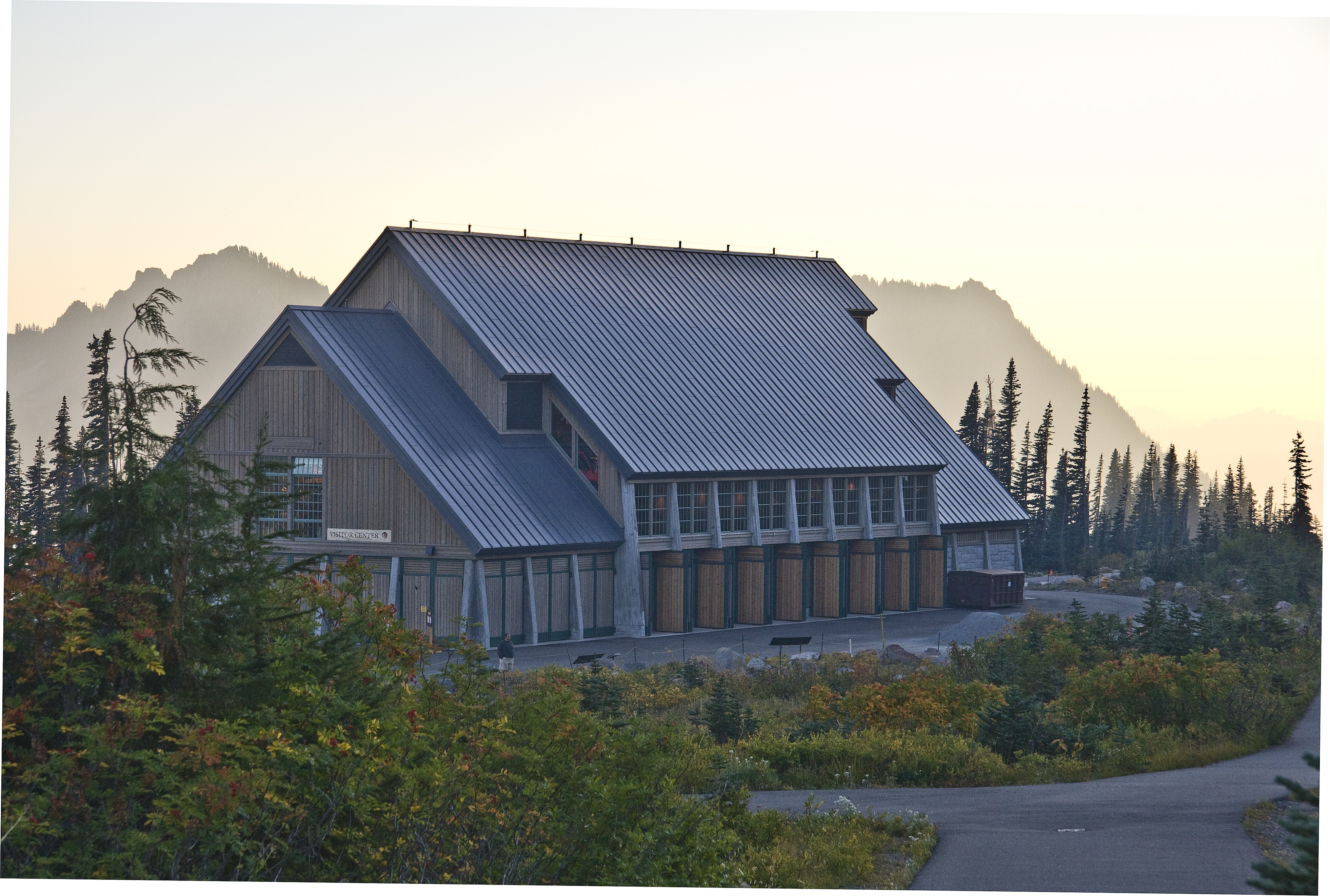 New Henry M. Jackson Visitor Center, Paradise, Mount Rainier National Park, Washington USA. Tatoosh Range in the background.